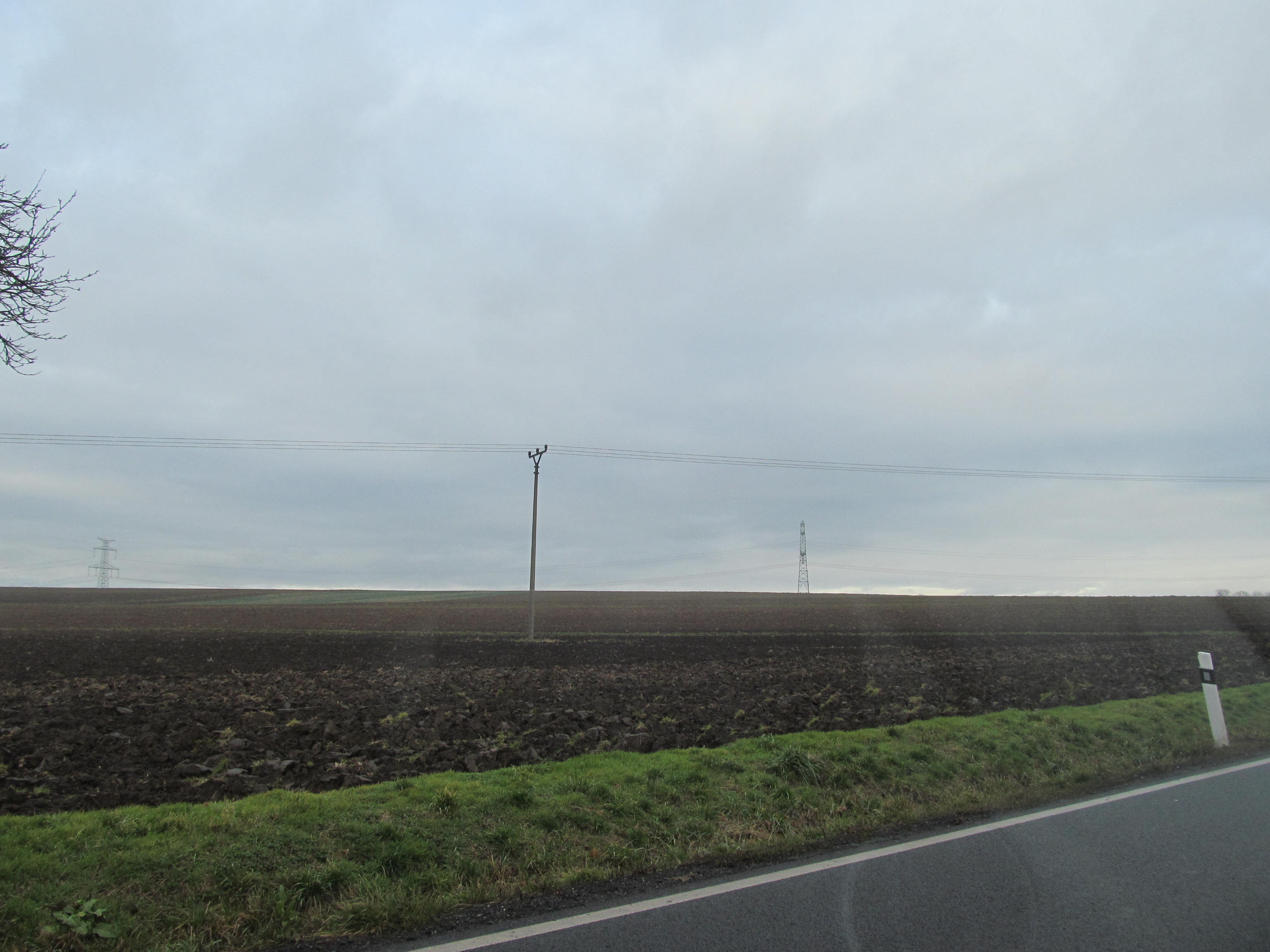 Field Draha by Líšťany